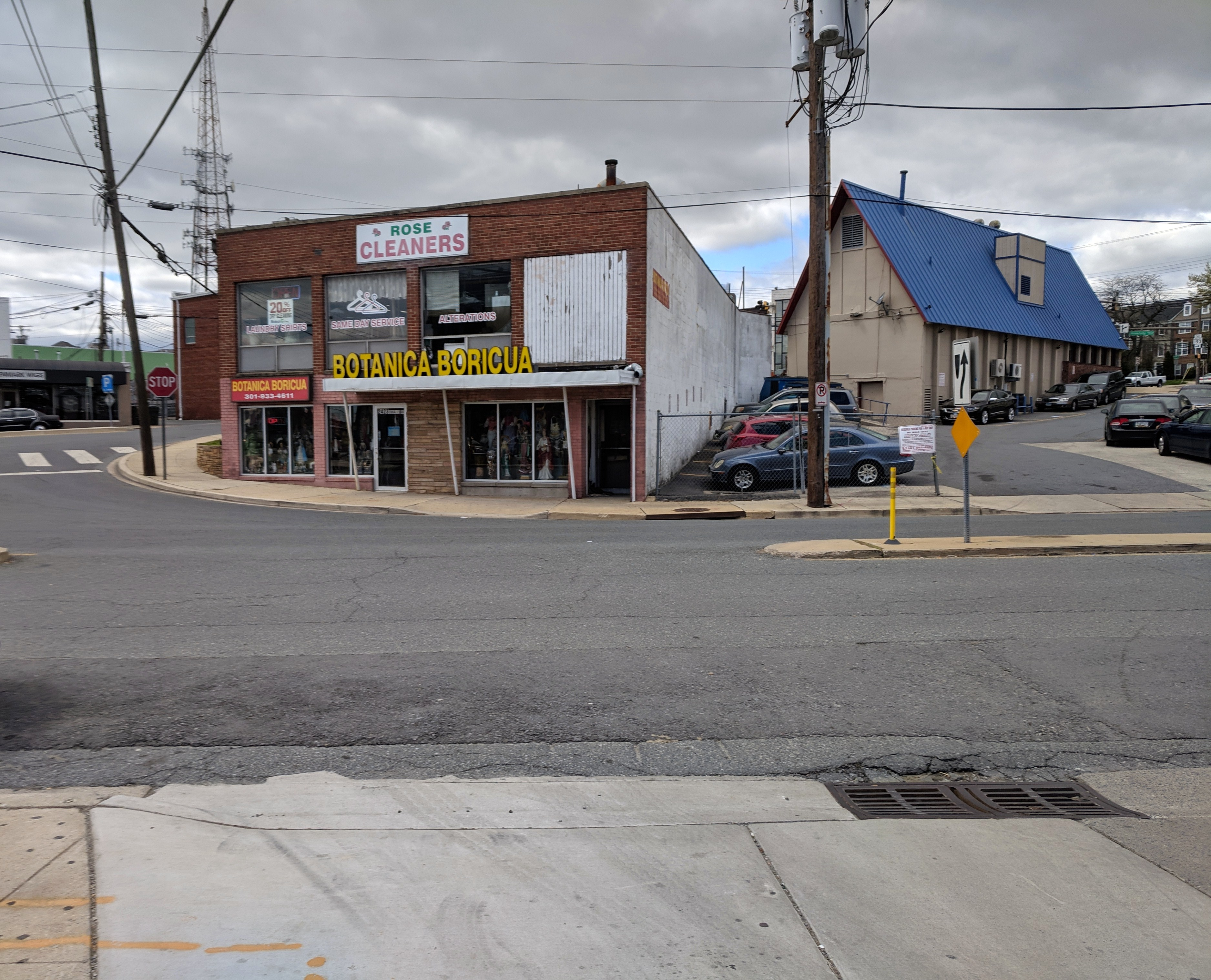 Botanica Boricua, a religious goods store in Wheaton, Maryland.